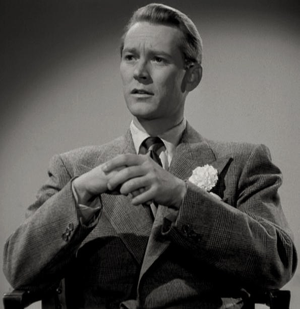 Jess Barker in Scarlet Street - cropped screenshot